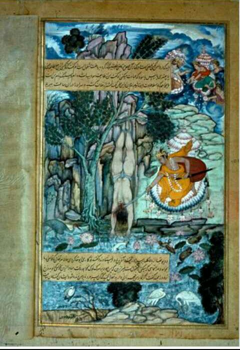 Uttarakanda episode